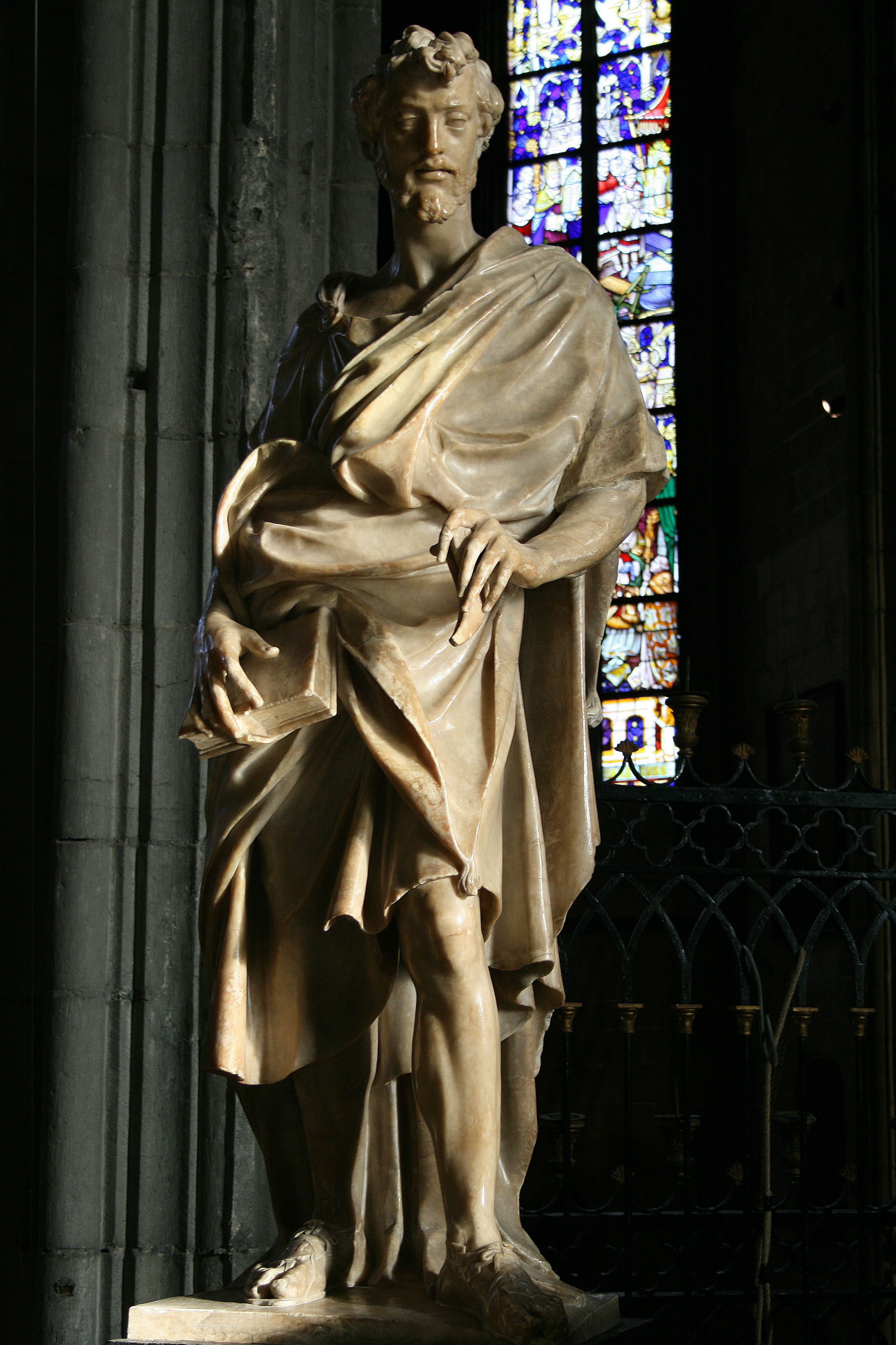 Alabaster statue of Saint Bartholomew. – Part of the former rood screen performed by Jacques Du Broeucq between 1541 and 1545 for the Saint Waltrude collegiate church of Mons (Belgium).